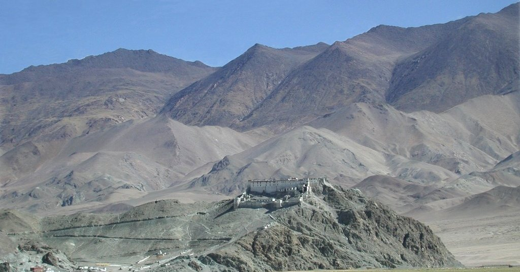 Hanle Gompa. Photograph uploaded by Ian A. Inman (Beefy_SAFC)